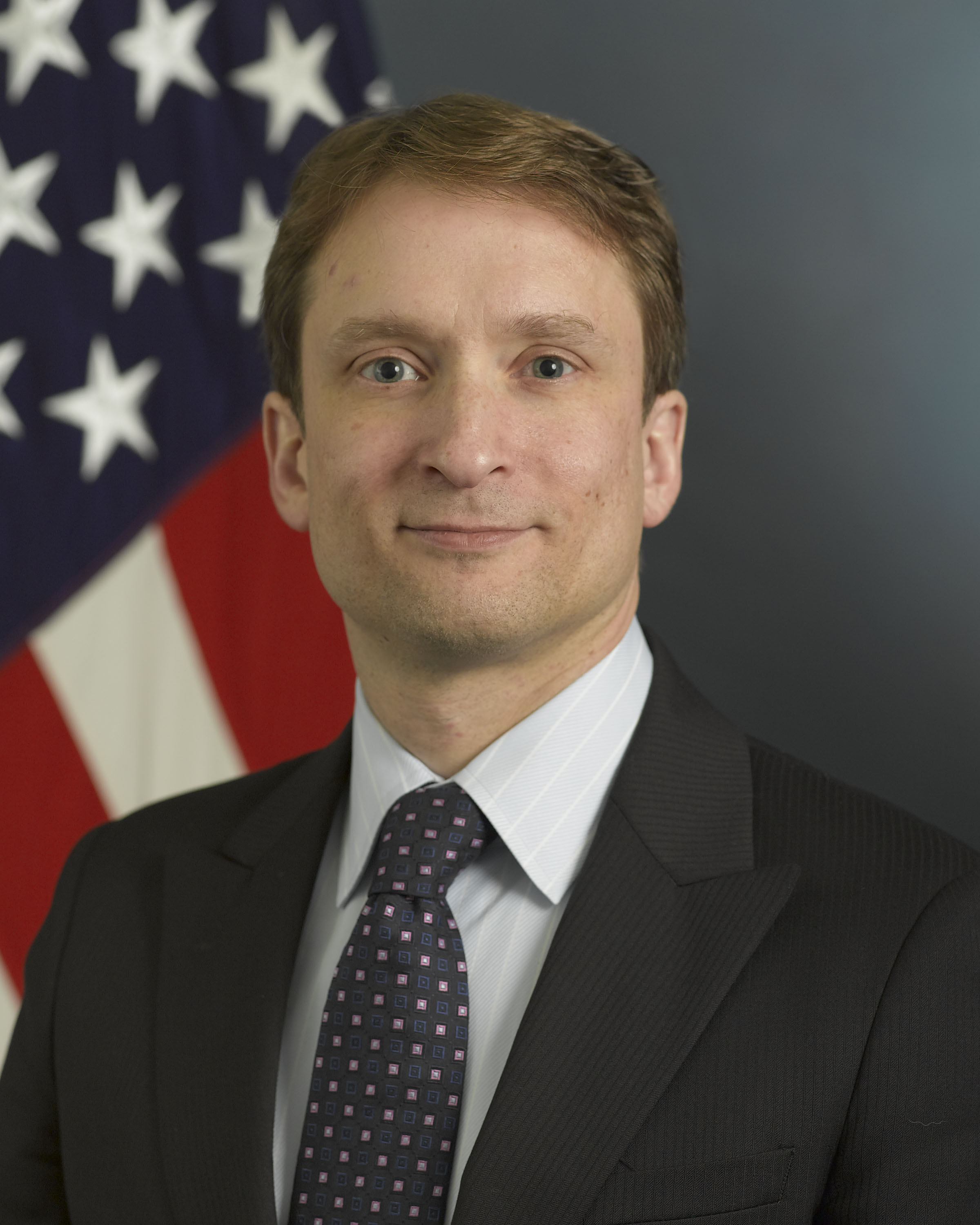 Head shot of Mr. Zatko during his tenure at DARPA